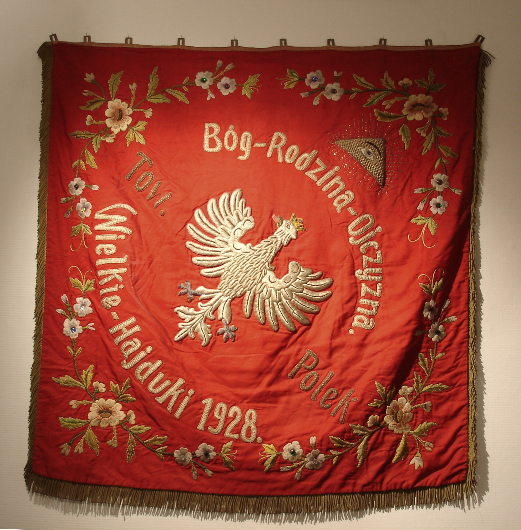 The banner of Society of Polish Women (Towarzystwo Polek) in Wielkie Hajduki (Chorzów, Poland), 1928.